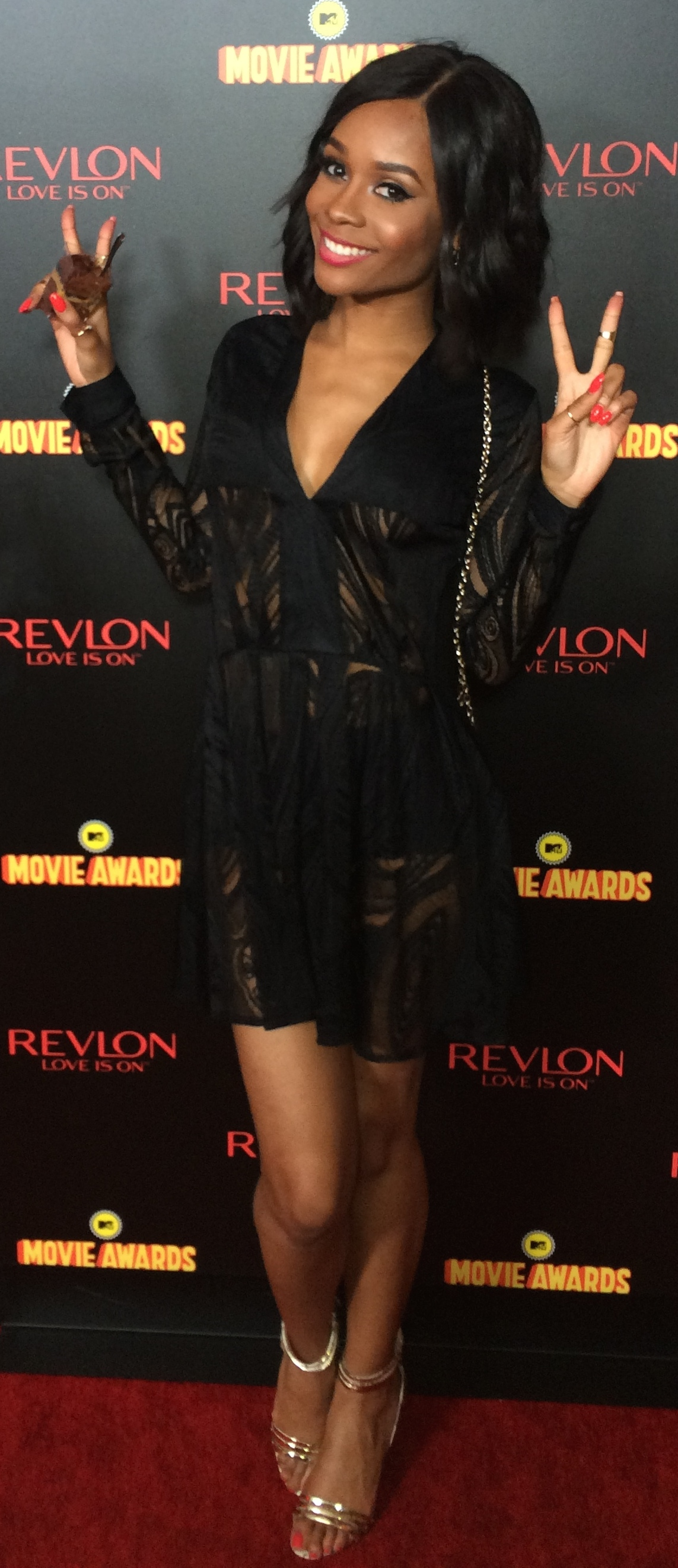 Zuri attending the after party for the 2015 MTV Movie Awards, at the Nokia Theatre in Los Angeles, CA.